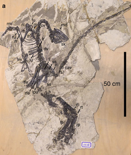 Figure 1: Jianianhualong tengi holotype DLXH 1218. Scale bar, 50 cm. cav, caudal vertebrae; cv, cervical vertebrae; dv, dorsal vertebrae; fu, furcula; lfe, left femur; lh, left humerus; li, left ilium; lis, left ischium; lm, left manus; lp left pes; lpu, left pubis; lr, left radius; lu, left ulna; md, mandible; rc, right coracoid; rfe, right femur; rfi, right fibula; rh, right humerus; ri, right ilium; rm, right manus; rr, right radius; rs, right scapula; rt, right tibiotarsus; ru, right ulna; sk, skull; ss, synsacrum.